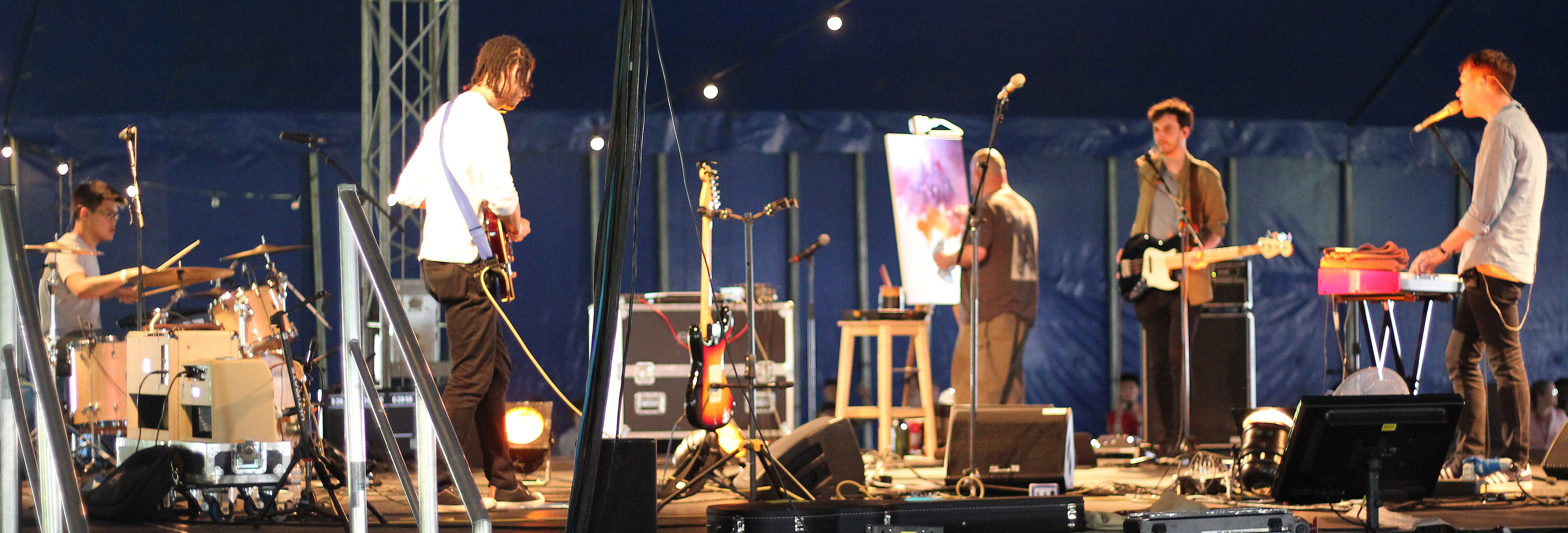 Rivers & Robots performing at Big Church Day Out (South) at Wiston House, West Sussex, UK.